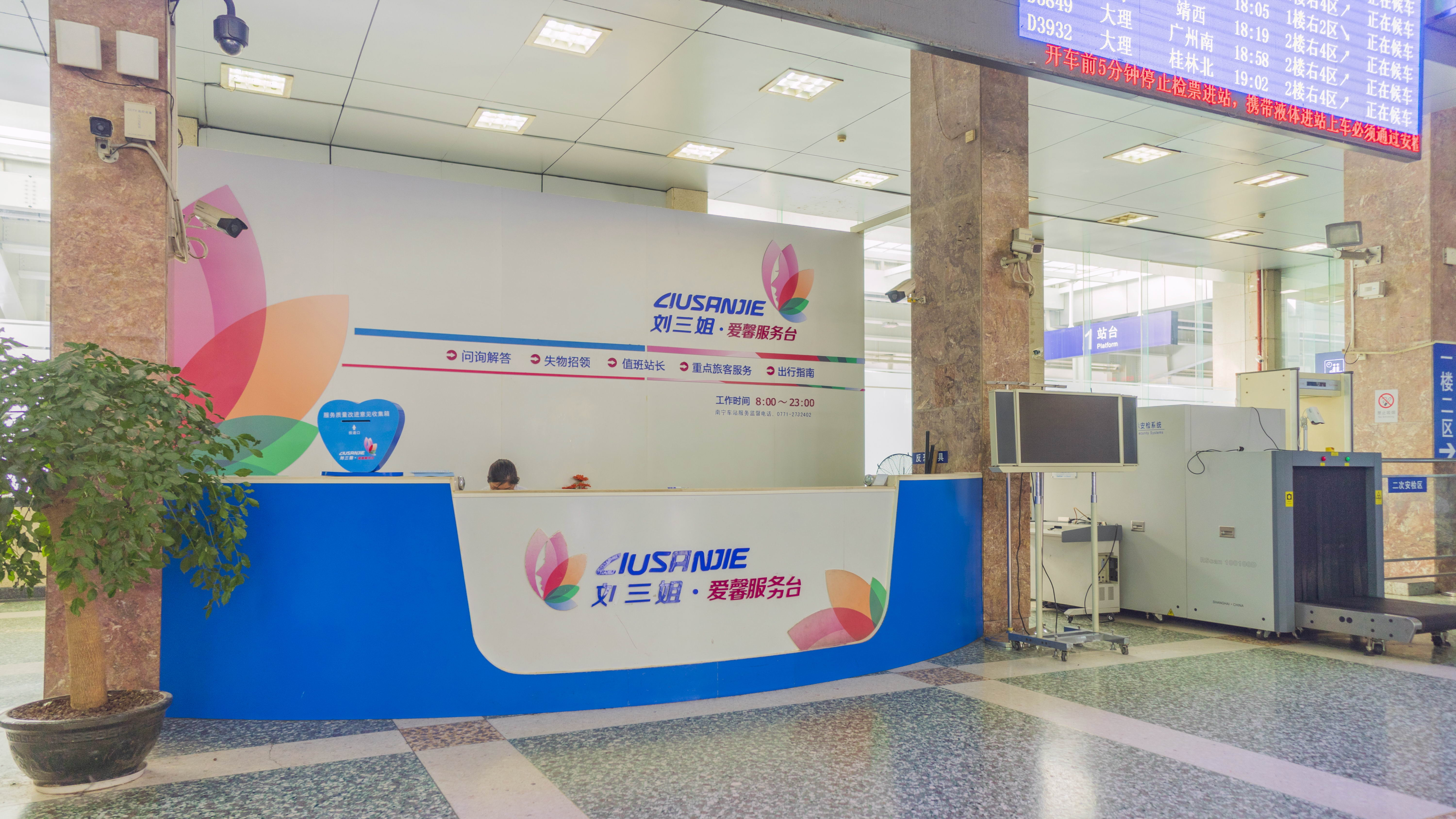 Nanning, China